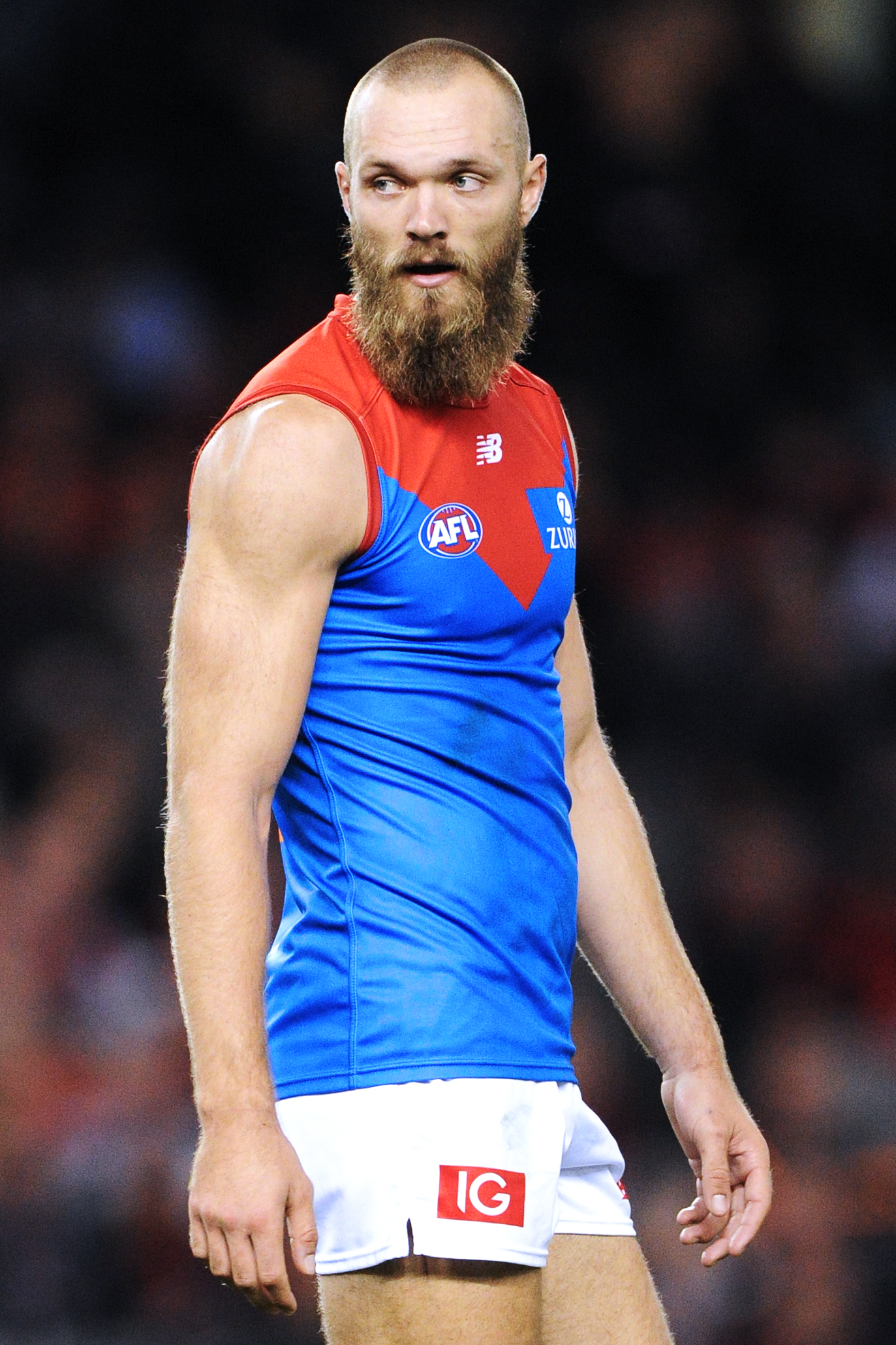 Max Gawn of Melbourne during the 2018 AFL round 6 match between Essendon and Melbourne at Etihad Stadium on Sunday, 29 April 2018 in Melbourne, Victoria.